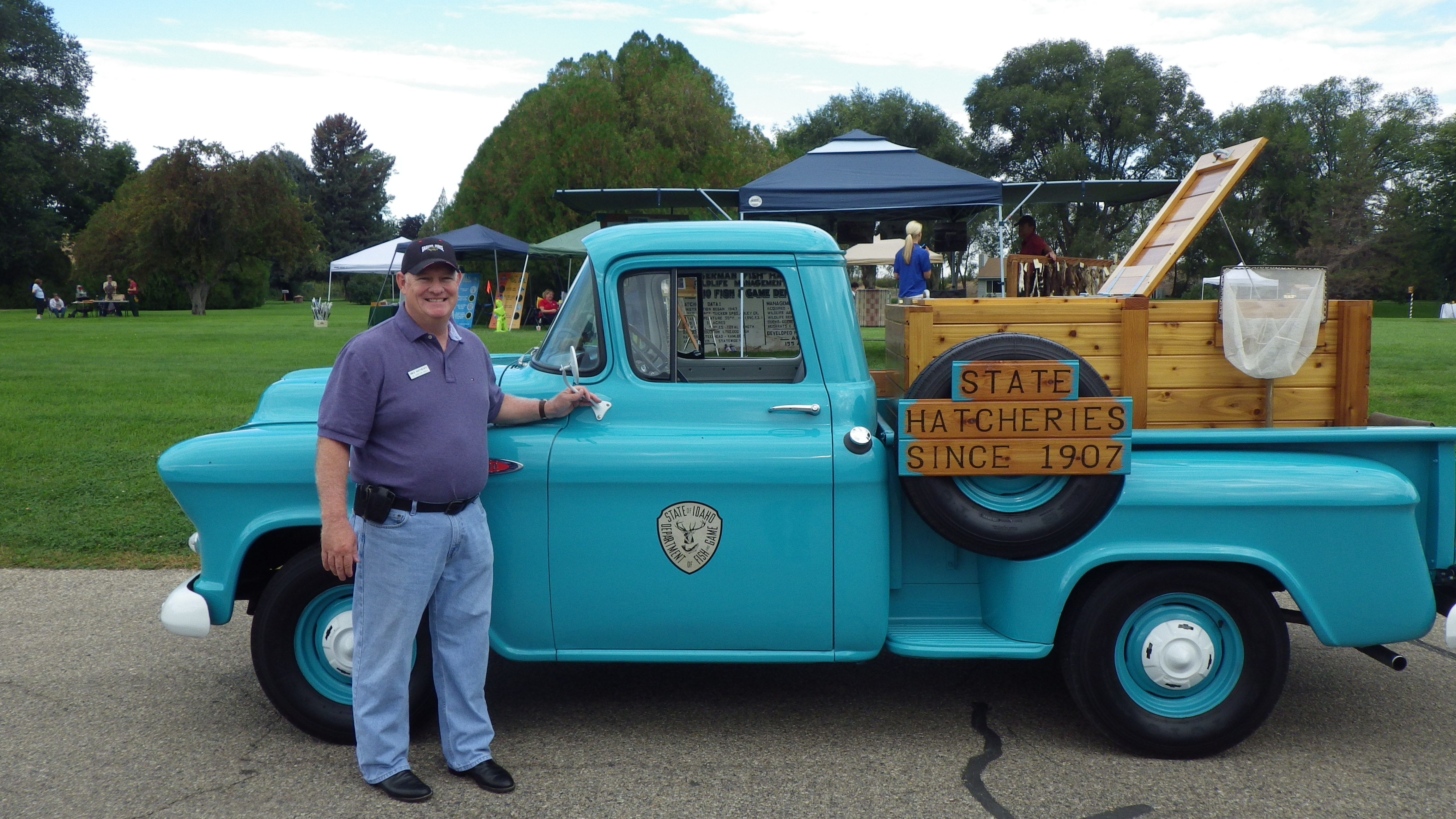 This beautifully restored blast from the past was on display to show visitors what a fish transport truck would have looked like decades ago.